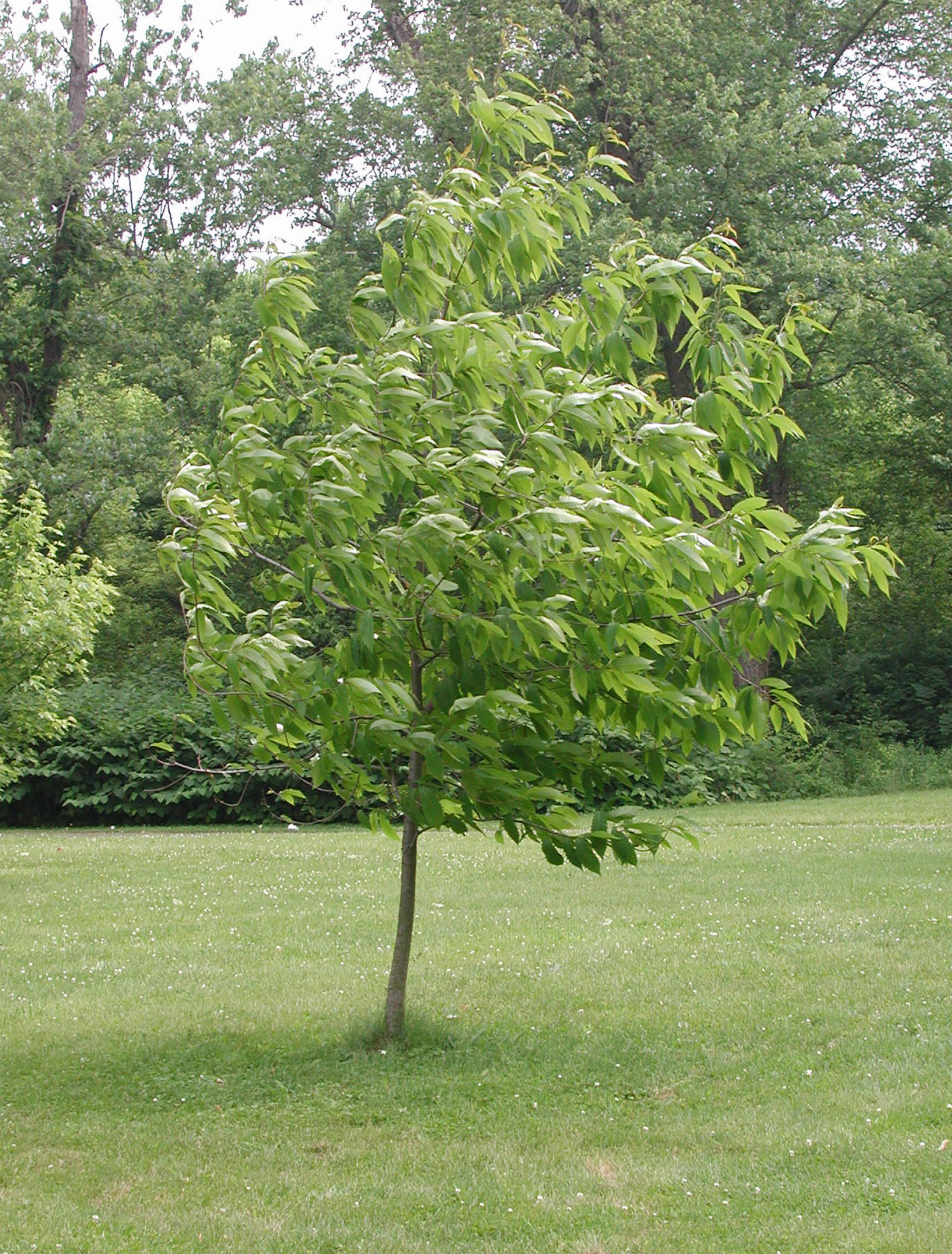 A field trial of blight-resistant American chestnut, 100% genetically Castanea dentata. This tree has bloomed for three years now, shows evidence of multiple healed sores on the bark, but is still healthy and vigorously growing.